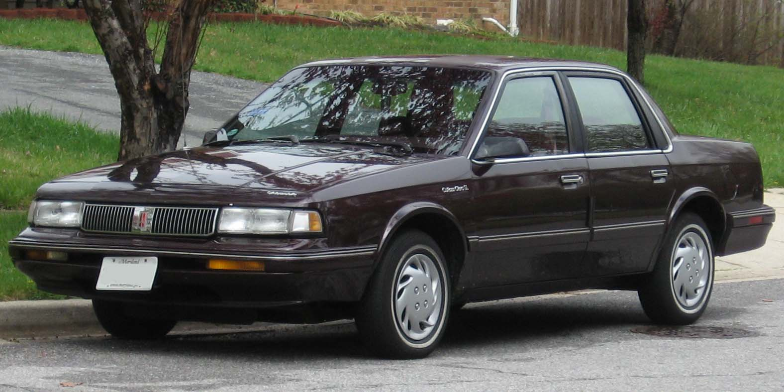 1991-1996 Oldsmobile Cutlass Ciera SL photographed in USA.